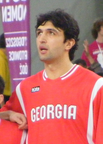 Zaza Pachulia, basketball player from Georgia